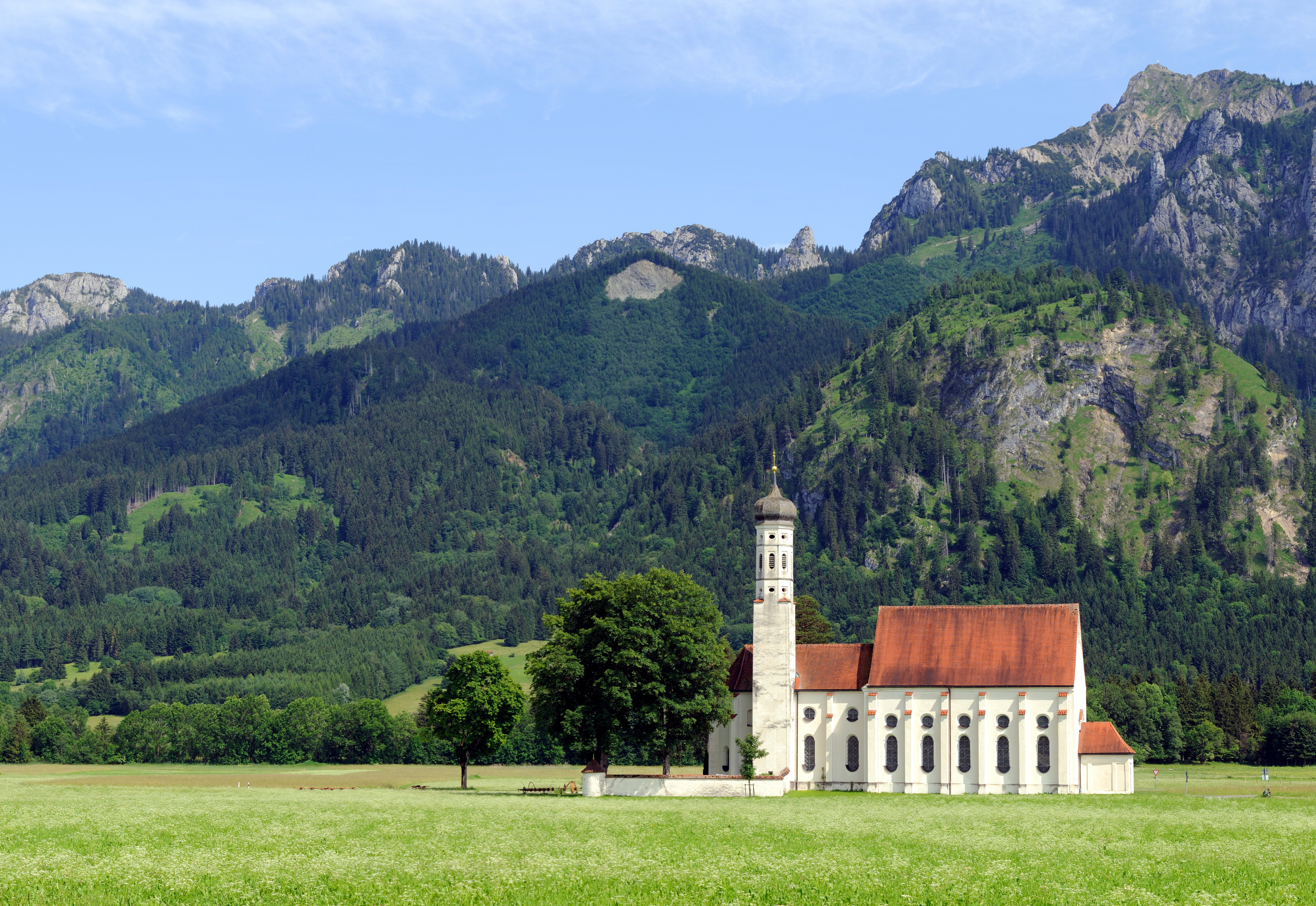 St. Coloman Church